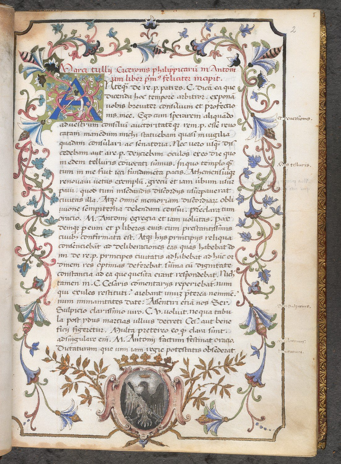 Illuminated manuscript of Cicero's Philippics, with large initial and a full decorated border (added later, possibly during the 18th century). BL Kings MS 21, f. 2. Previously owned by the Gonzaga family of Venice, circa 1800, whose arms are visible in the border (arms per bend argent and sable, an eagle displayed counterchanged, crowned or, surmounted with a seven-pointed coronet). Held and digitised by the British Library.